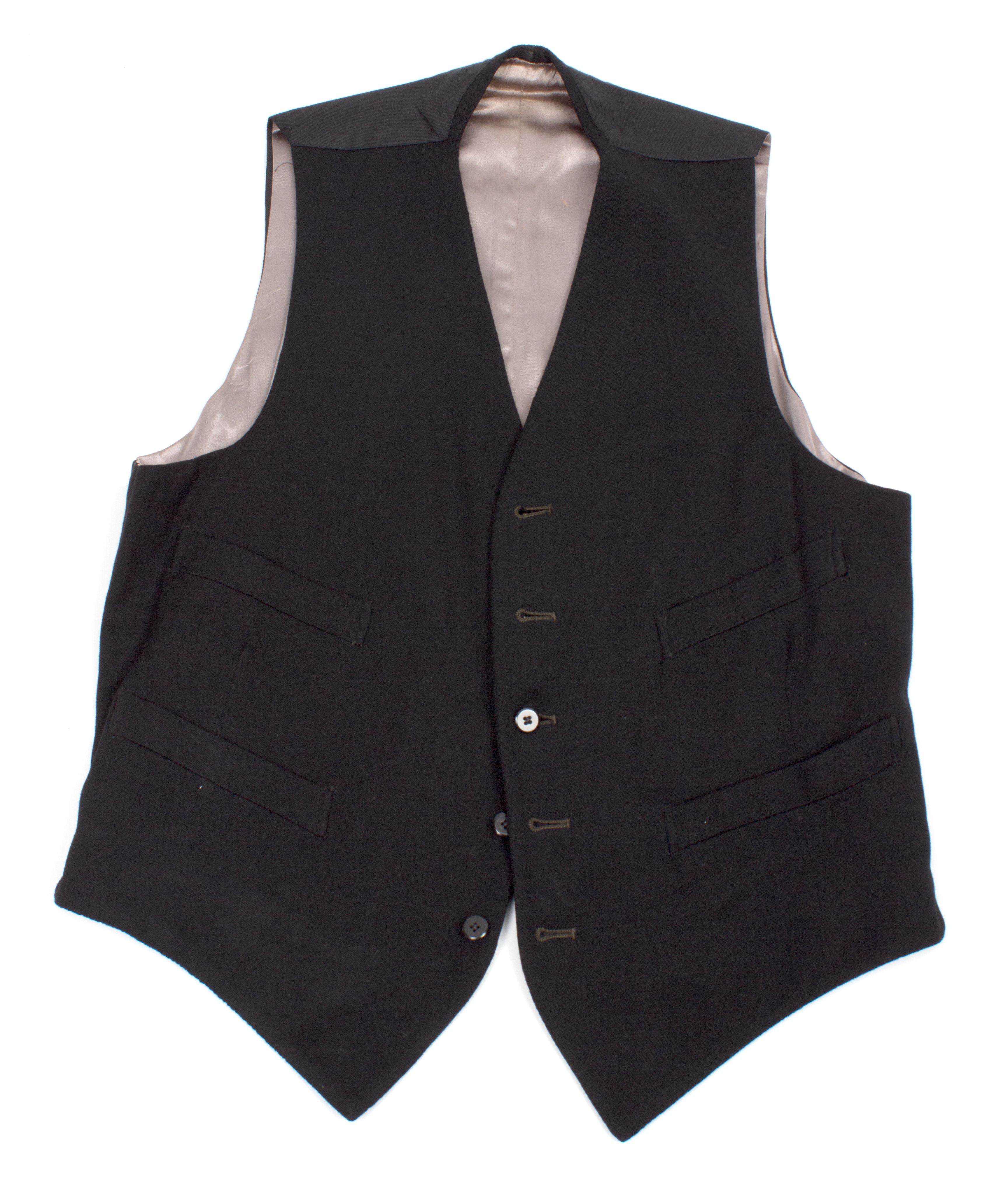 Merchant navy - mercantile uniform waistcoat, post WW2 Part of uniform belonging to Chief Engineer Eric Milton Denby, Union Steamship Co.